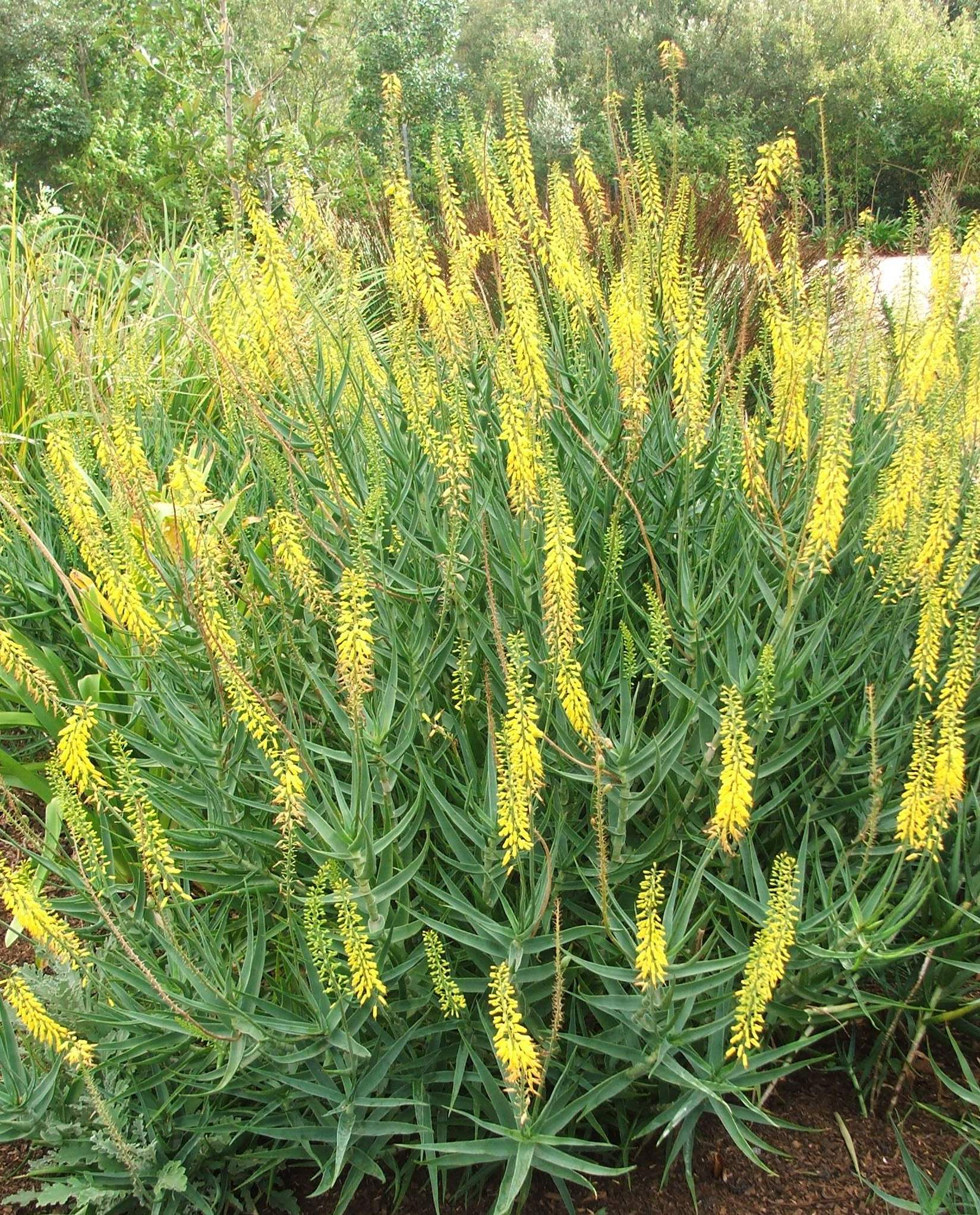 A stand of Aloe tenuior in flower.